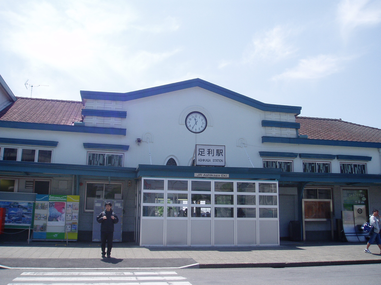 Ashikaga station in Japan(north exit)